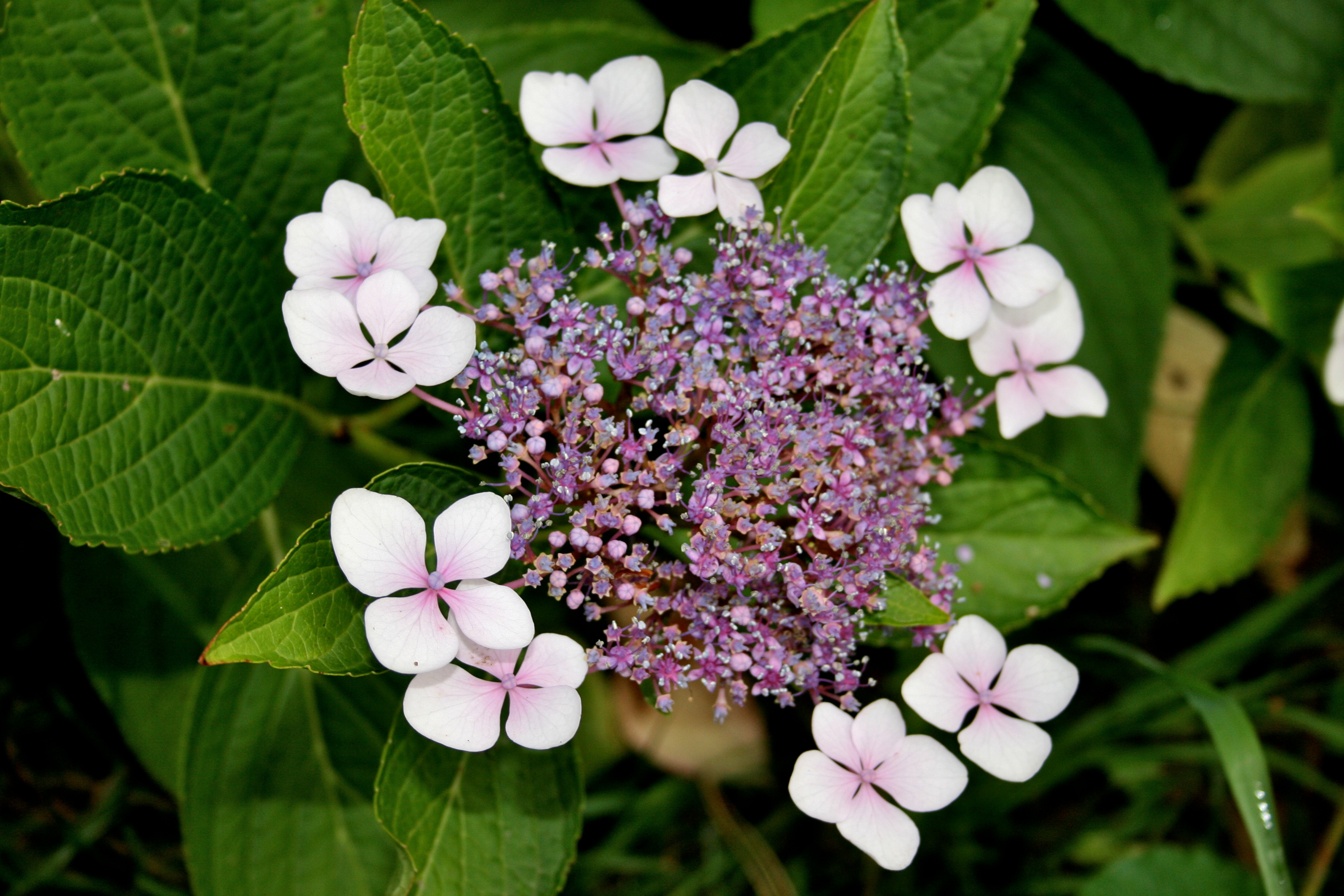 Hydrangea macrophylla, photographed near to Torun, Poland.